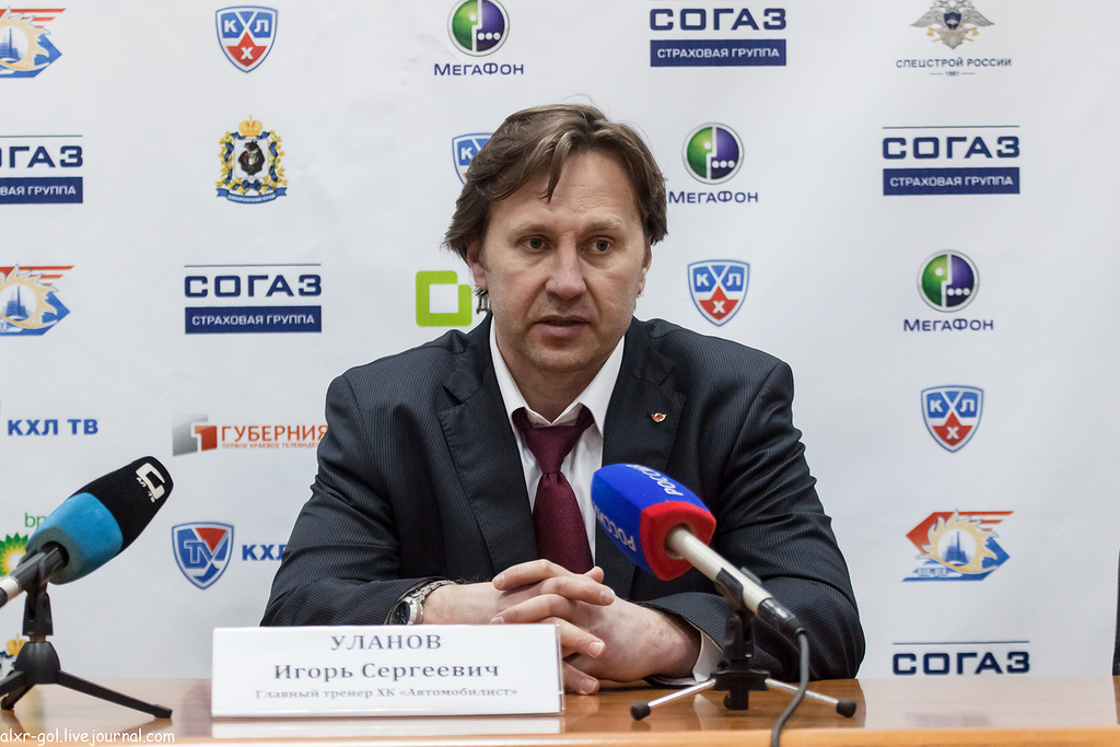 Avtomobilist Yekaterinburg head coach Igor Ulanov after the KHL Cup of Hope game against Amur Khabarovsk on March 11, 2013.